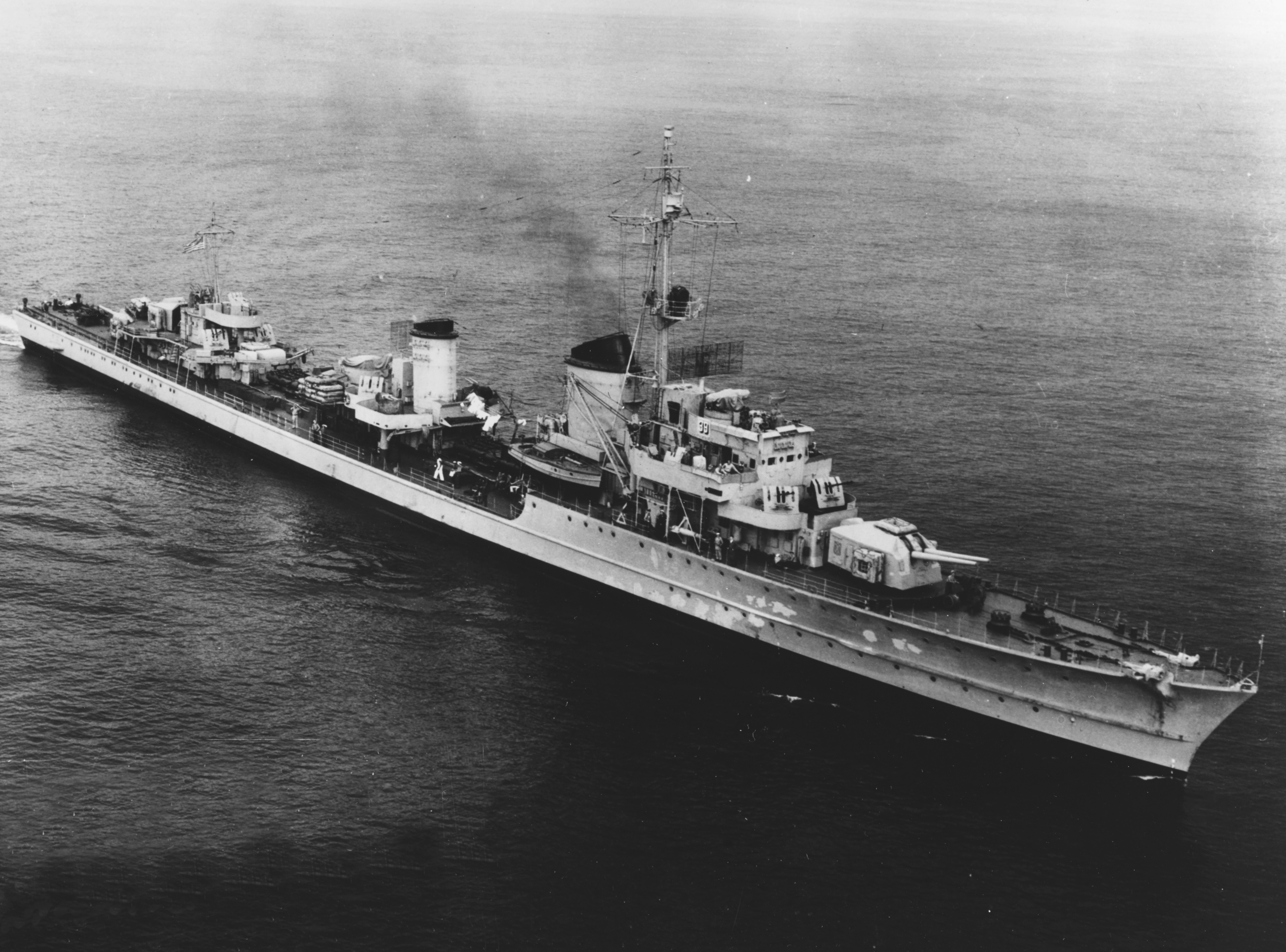 The former German destroyer Z39 underway off Boston, Massachusetts (USA), on 12 September 1945. The U.S. Navy designated the destoyer DD-939.